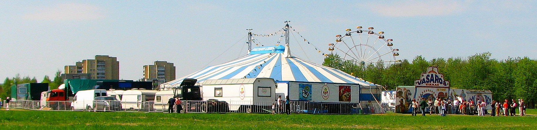 BALTIJOS CIRKAS tour in Panevezys city. 2006 may 4-14 days. (The only professional circus company in Lithuania).